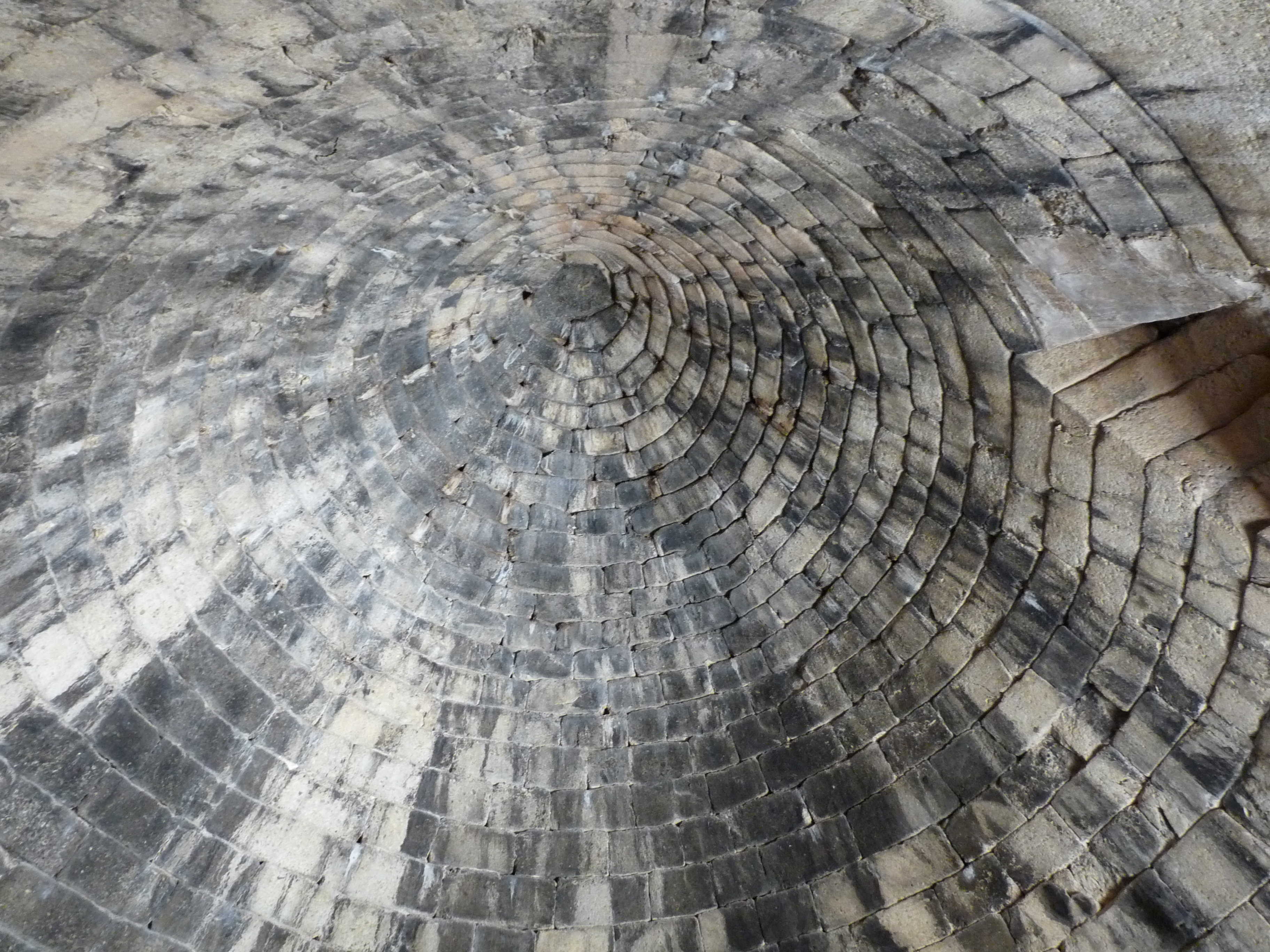 Mycenae Burial chamber 01